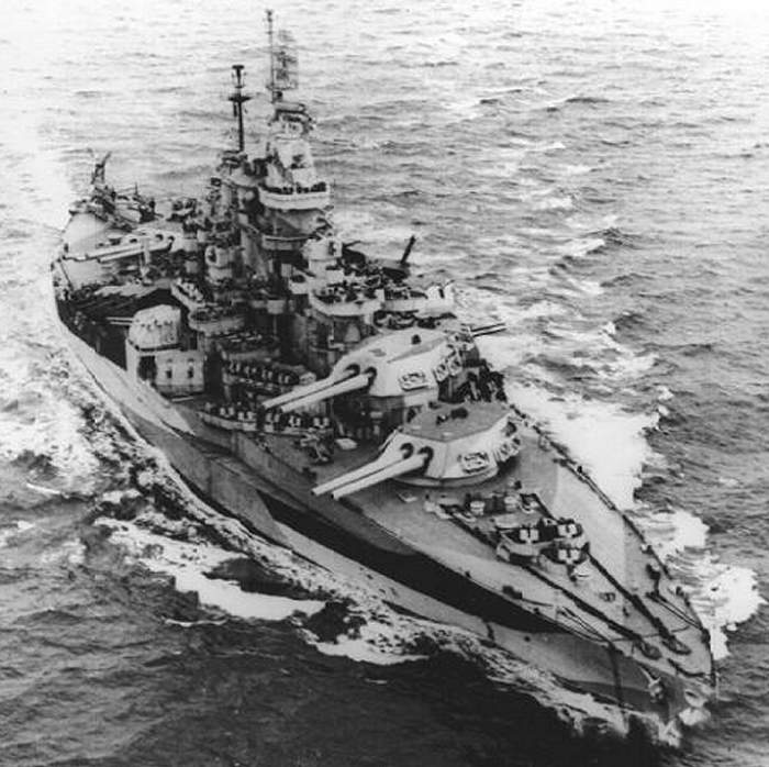 The U.S. Navy battleship USS West Virginia (BB-48) with her main batteries trained to starboard, in her final configuration after being rebuilt at Puget Sound Navy Yard, June 1944.